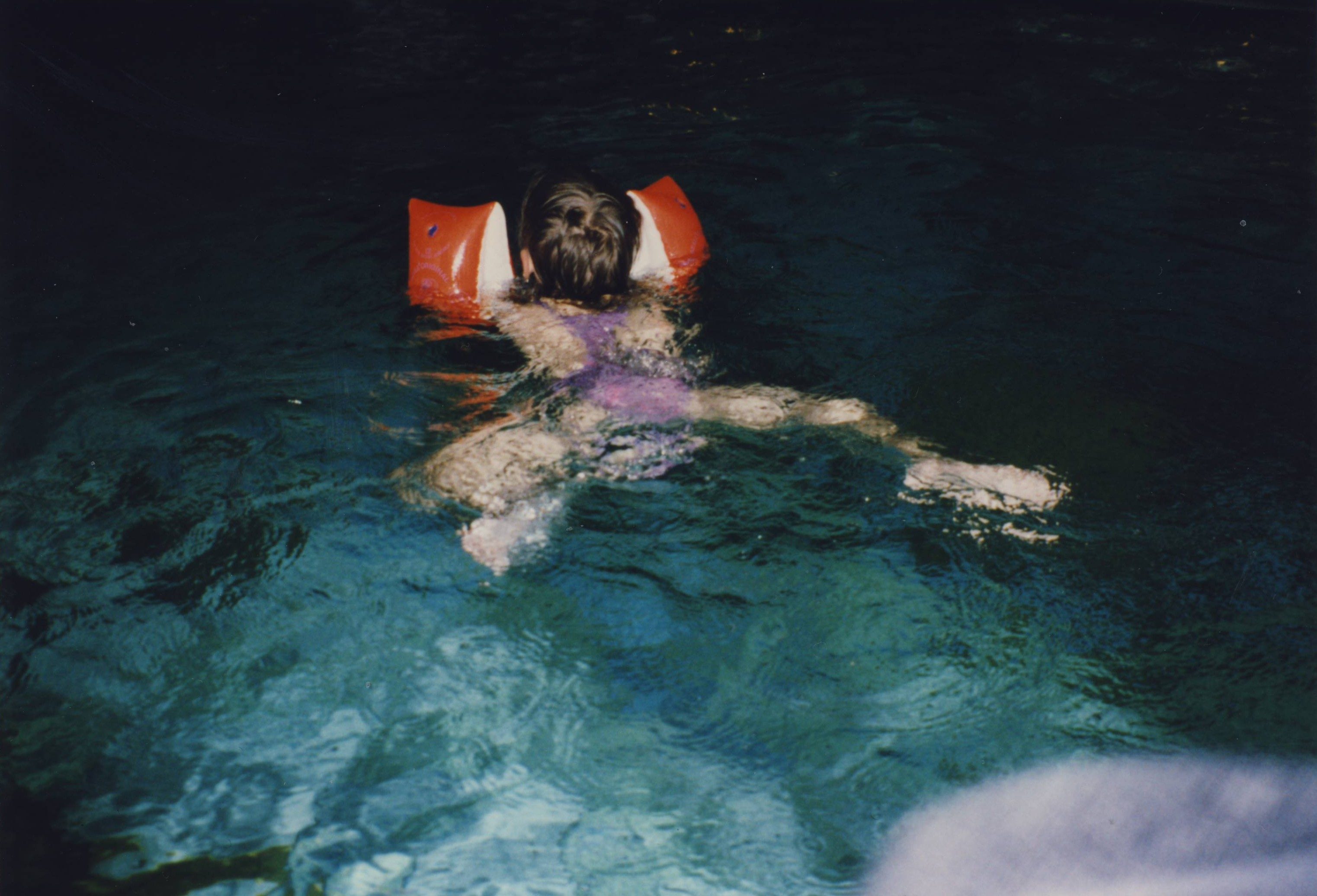 Swimming with water wings as swim-aid